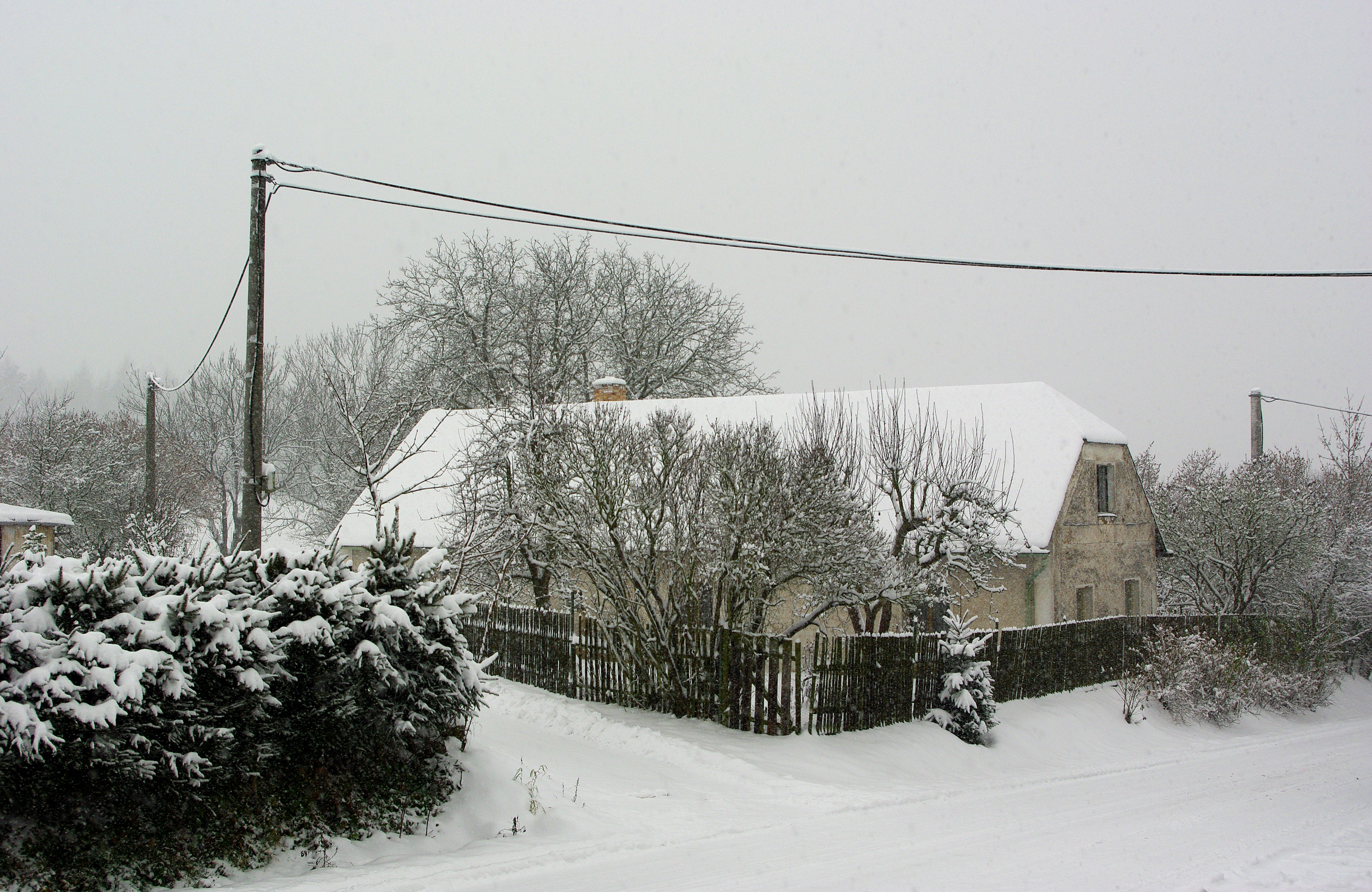 Vatěkov No. 18